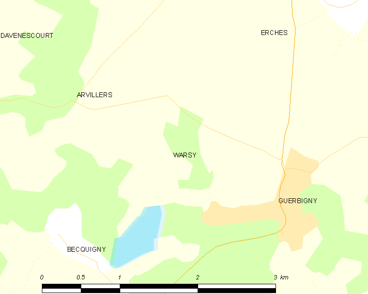 Map of French municipality Warsy